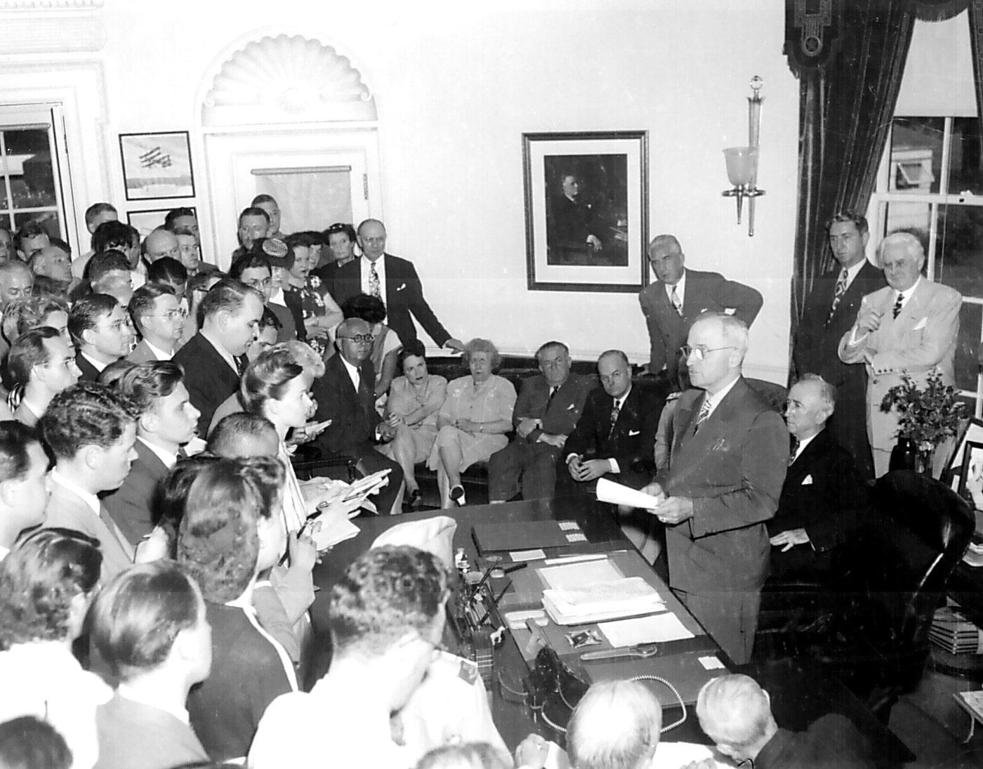 Description: At the White House, President Truman announces Japan's surrender. Washington, DC, August 14, 1945 Licence: Public Domain